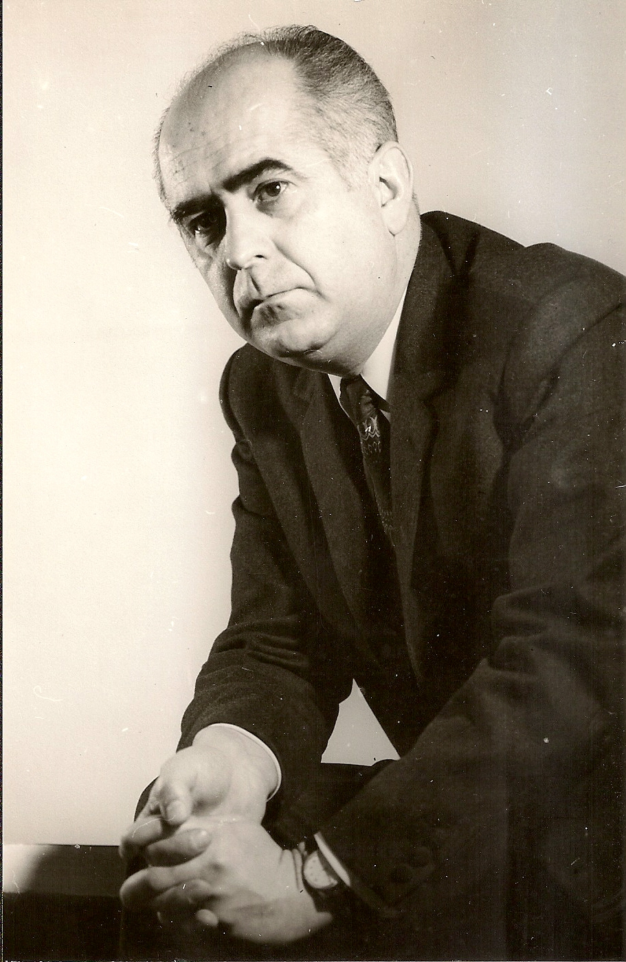 Emil Boshnakov (Емил Бошнаков) – Bulgarian Opera Director, featured by Opera Nationale de Paris in 1977